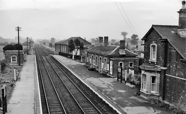 Beckford Station. Near to Beckford, Worcestershire, Great Britain. View NE, towards Evesham, Redditch, Barnt Green and Birmingham; Barnt Green - Redditch - Evesham - Ashchurch line. Rail traffic south of Barnt Green ceased 1/10/62, but the line and stations were not closed officially until 17/6/63, buses being substituted meanwhile.